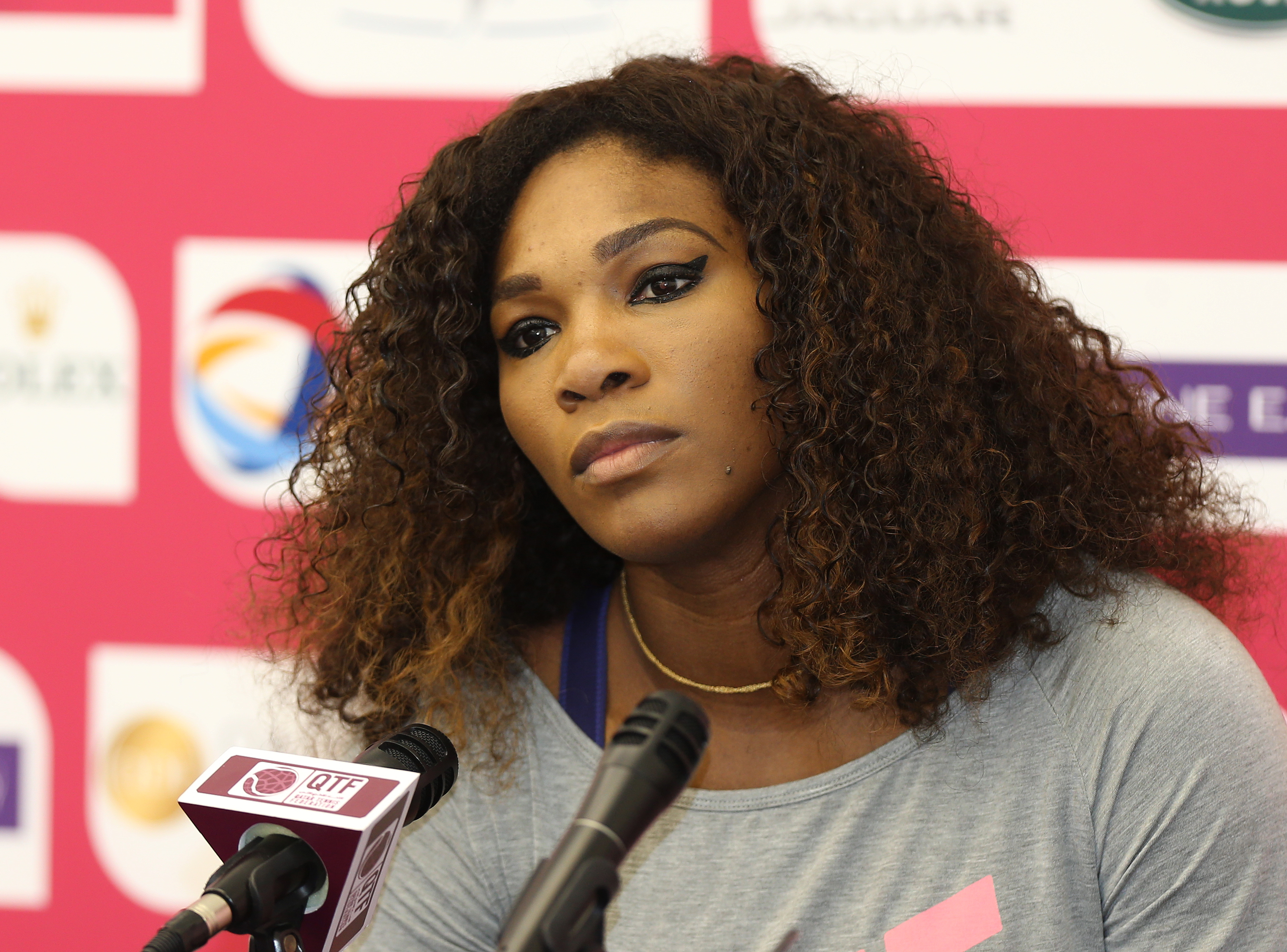 American tennis player Serena Williams during a Press conference in Doha. Picture by Vinod Divakaran